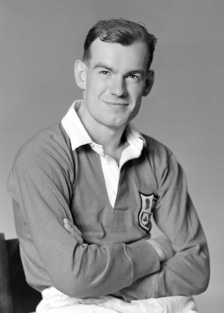 A W Black, member of the Lions, British representative rugby union team